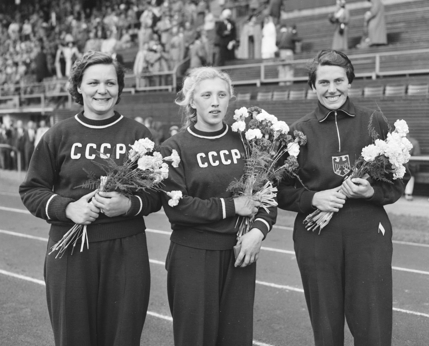 1952 Summer Olympics in Helsinki. Women's shot put. From the left: Klavdiya Tochonova of the Soviet Union, Galina Zybina of the Soviet Union, Marianne Werner of West Germany.